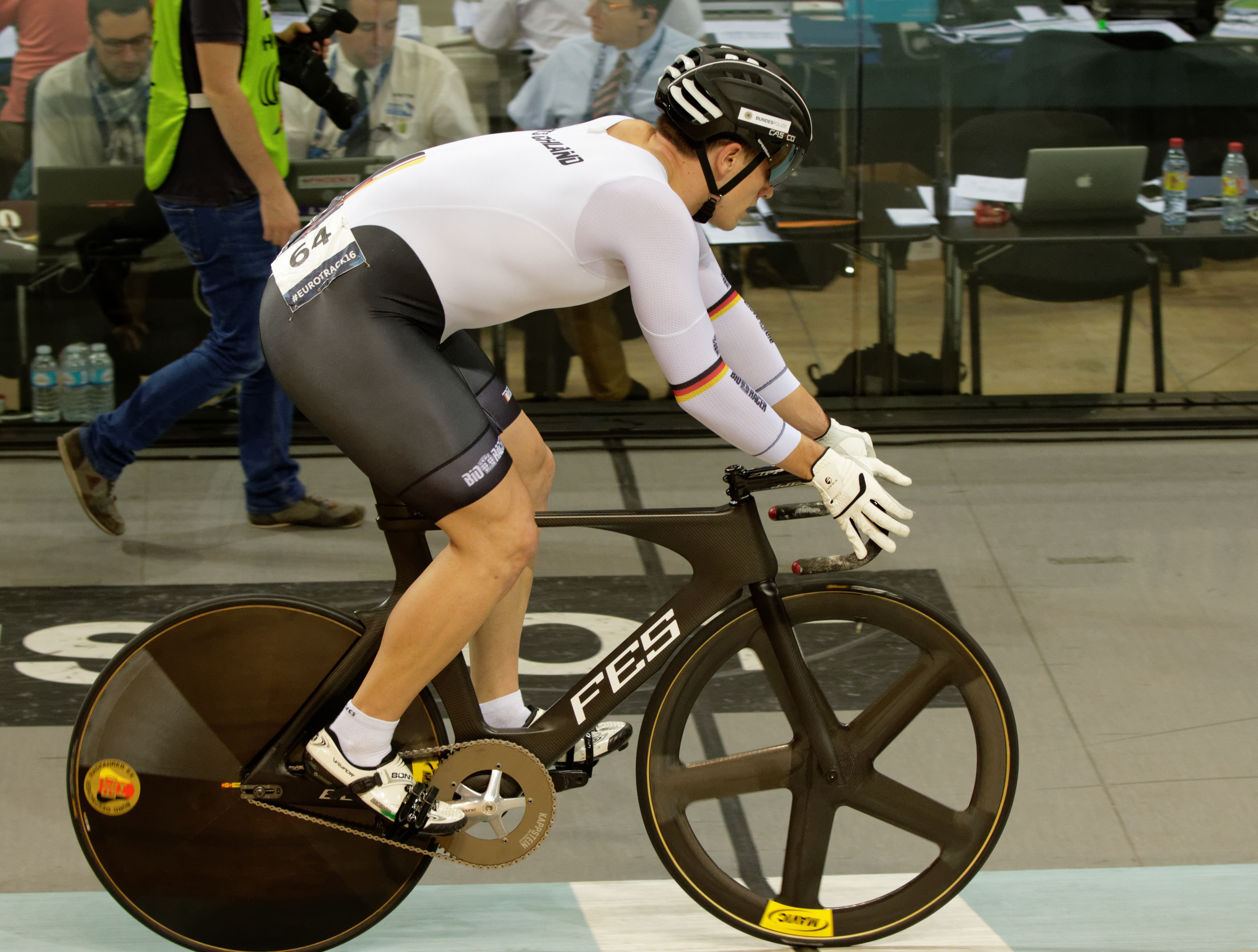 2016 UEC European Track Championships - Marc Jurczyk, cyclist from Germany